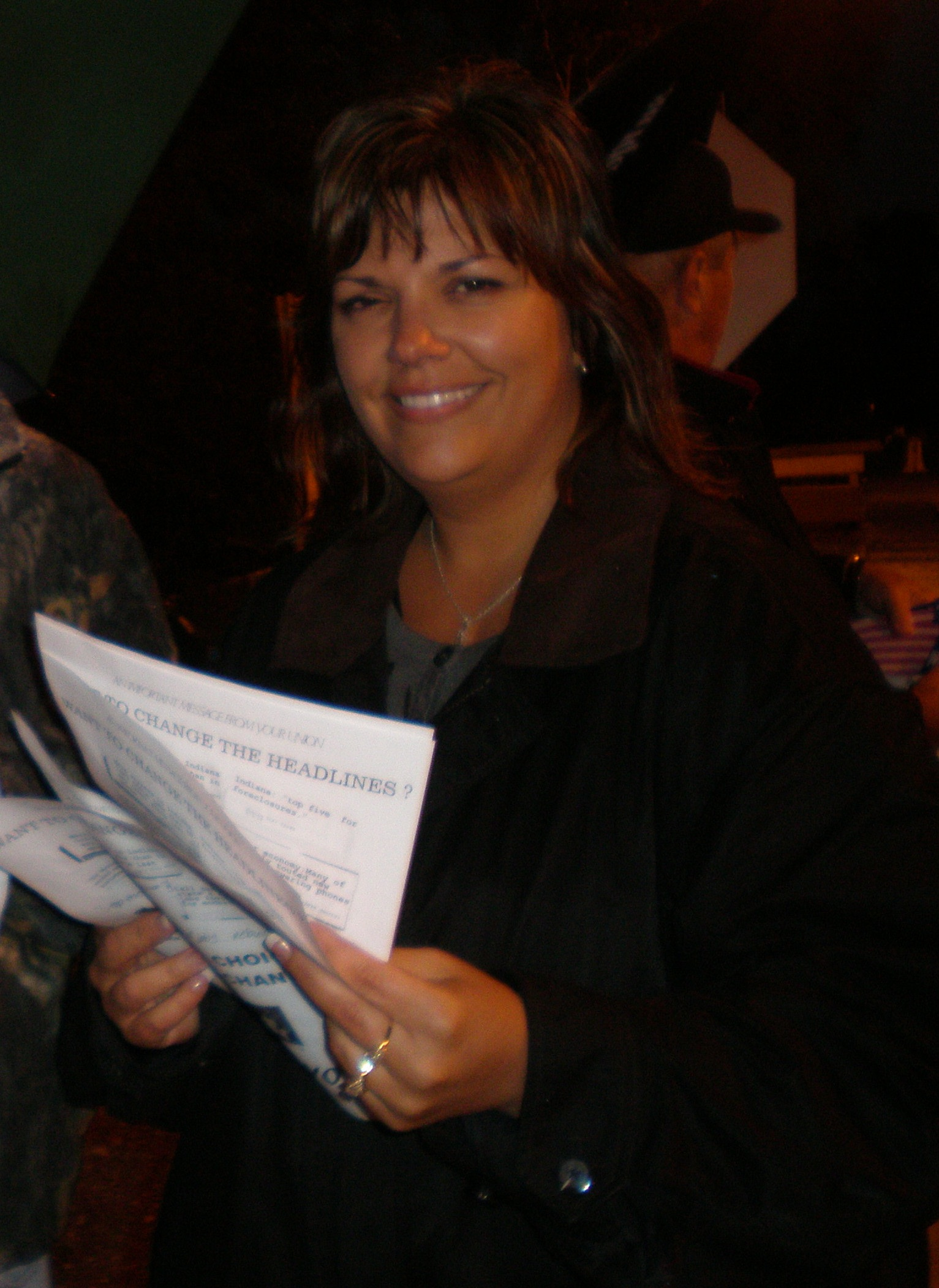 Indiana State Representative Shelli VanDenburgh